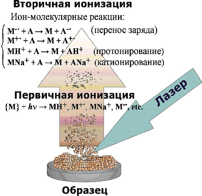 Scheme of Ionization by N2 impulse Laser for MALDI mass spectrometry